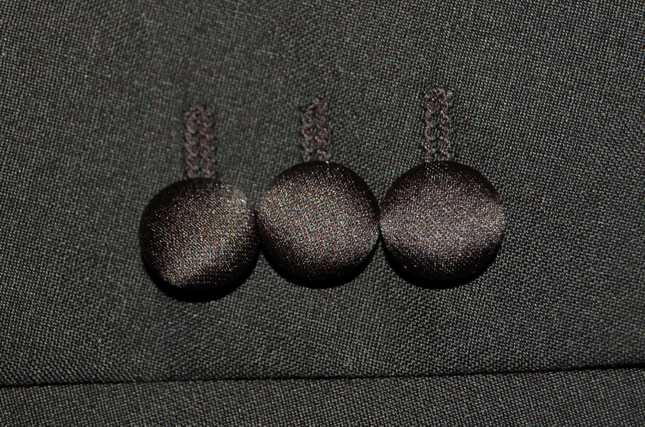 Cuff button detail on a dinner jacket (US